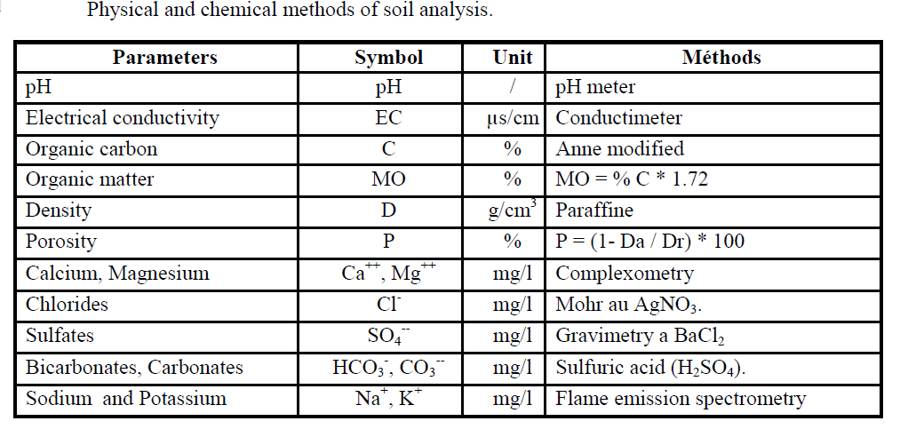 Physical and chemical methods of soil analysis